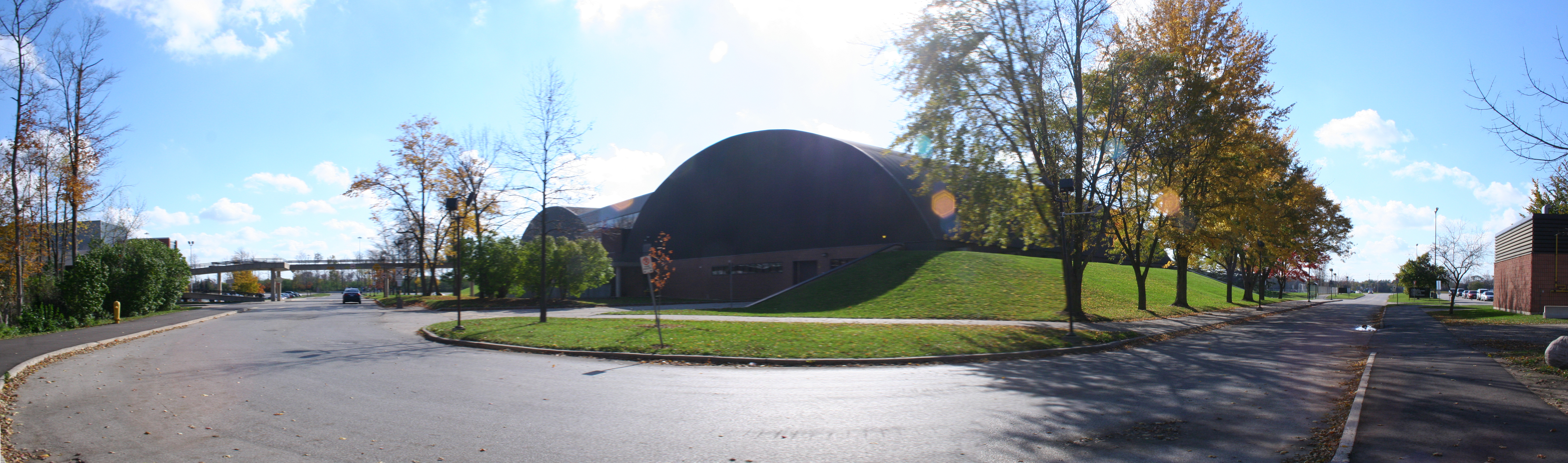 This image shows the back of the Doon Campus Rec Centre, the Kenneth E. Hunter Recreation Centre, and a corner of the main road through the campus